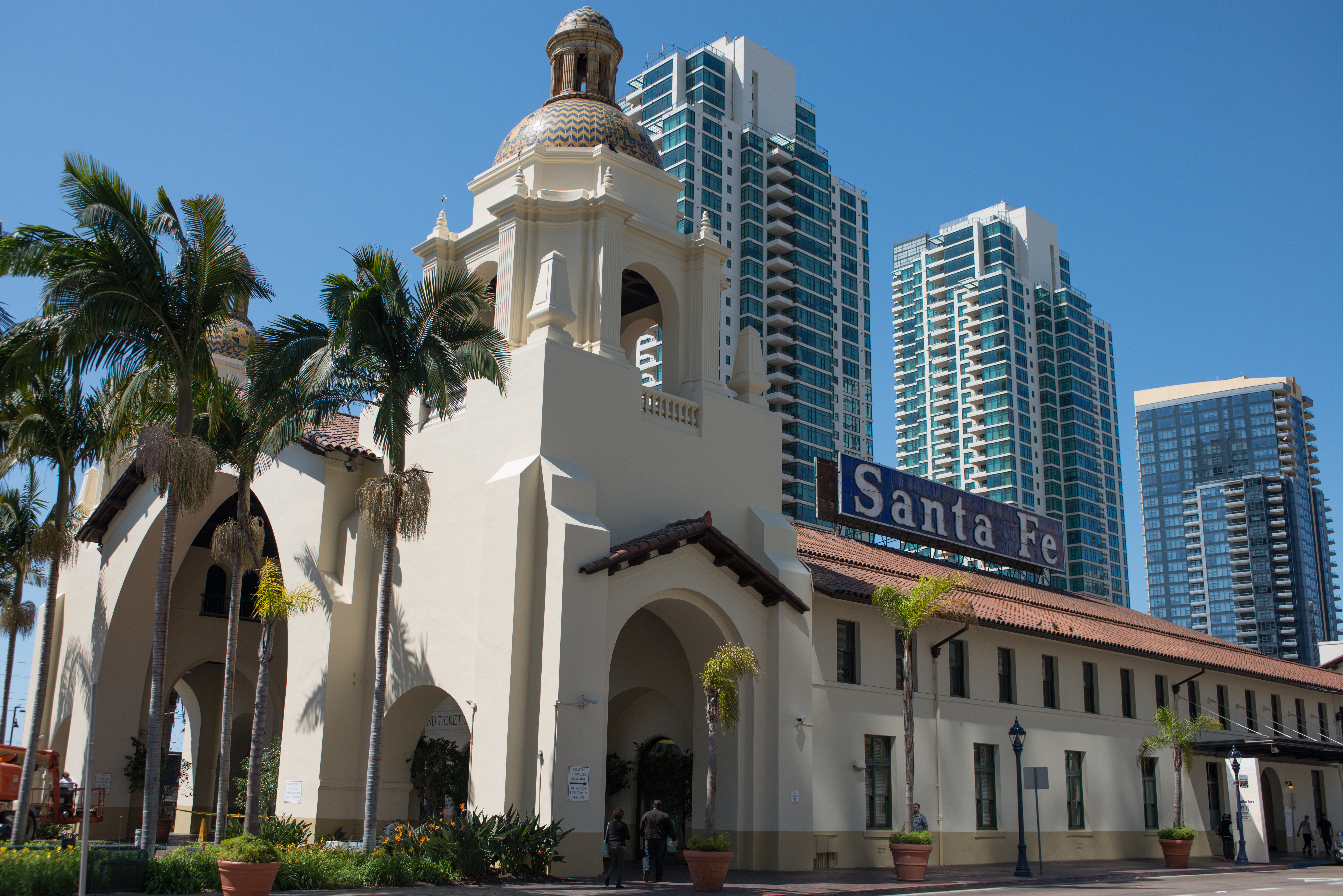 Union Station, San Diego